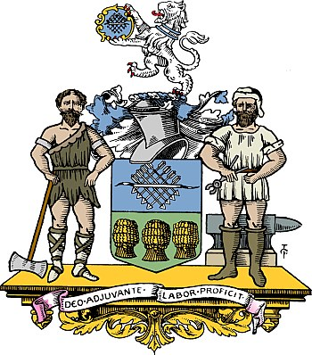 The Coat of arms of Sheffield City Council.